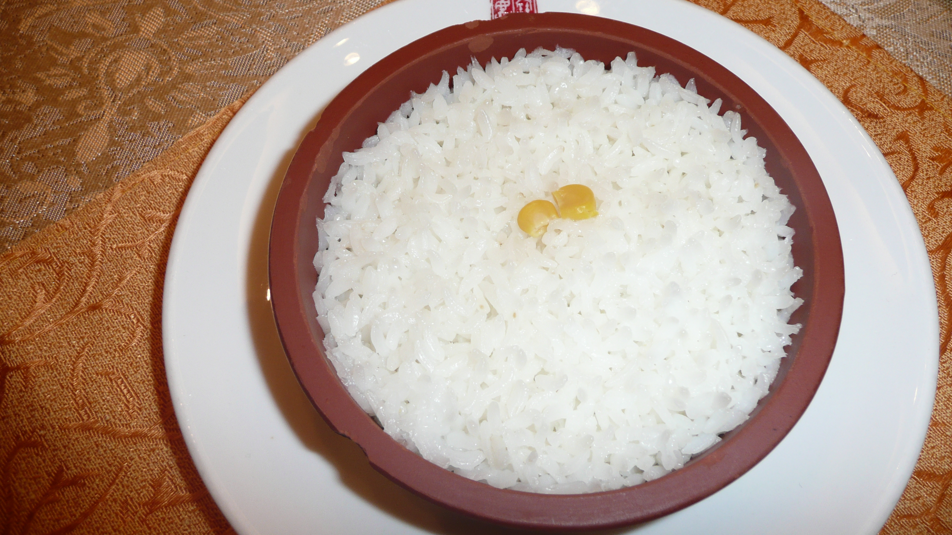 Cuisine of China, Shenzhen, Guangdong